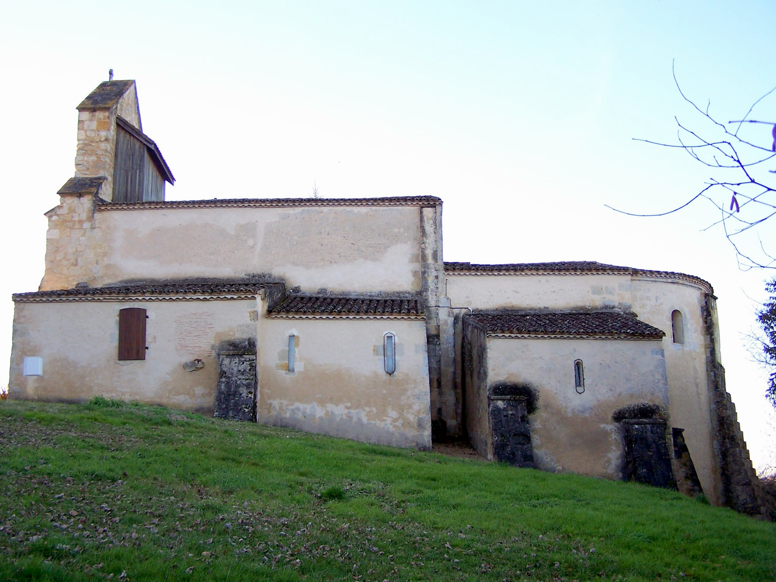 Church of Saint-Loubert (Gironde, France), east side